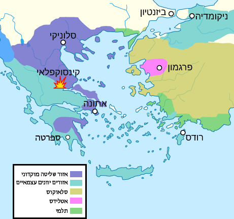 Greece and Little Asia 218 B.C.-he